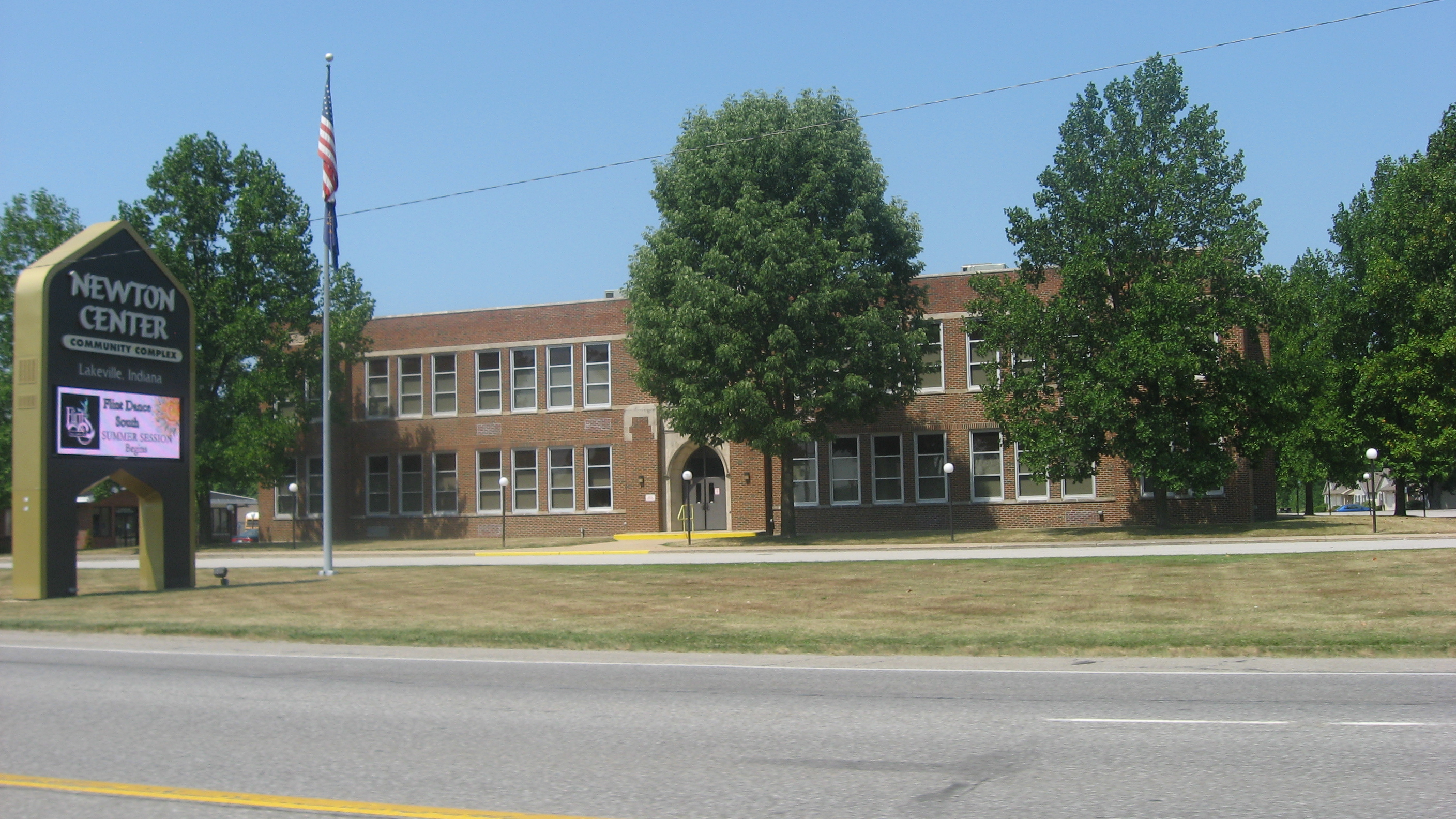 Front of the former Lakeville High School, now a community center, located at 601 N. Michigan Street (U.S. Route 31) in Lakeville, Indiana, United States. Built in 1931, it is listed on the National Register of Historic Places.